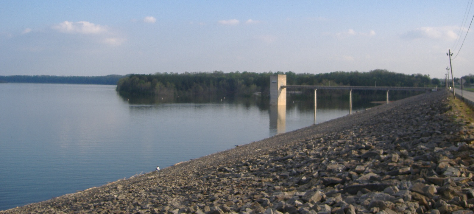 Barren River Lake in Kentucky.